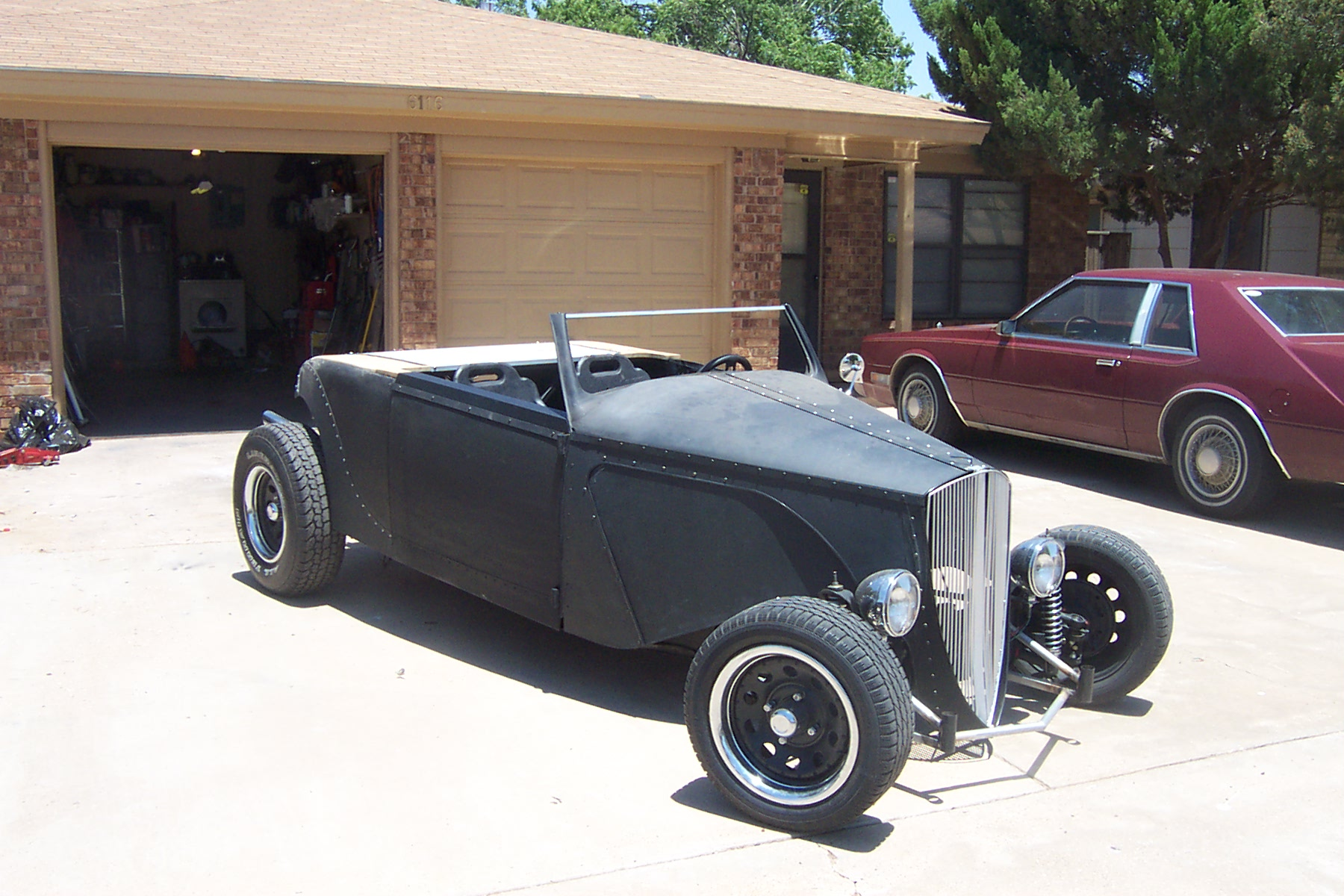 ISaac Gouge, of Lubbock Texas. This is a photo of my current 'volksrod' project vehicle. Thought it'd be a good addition to The Wikipedia page that details ' Volksrods'. It is copyright free, and free for public use.